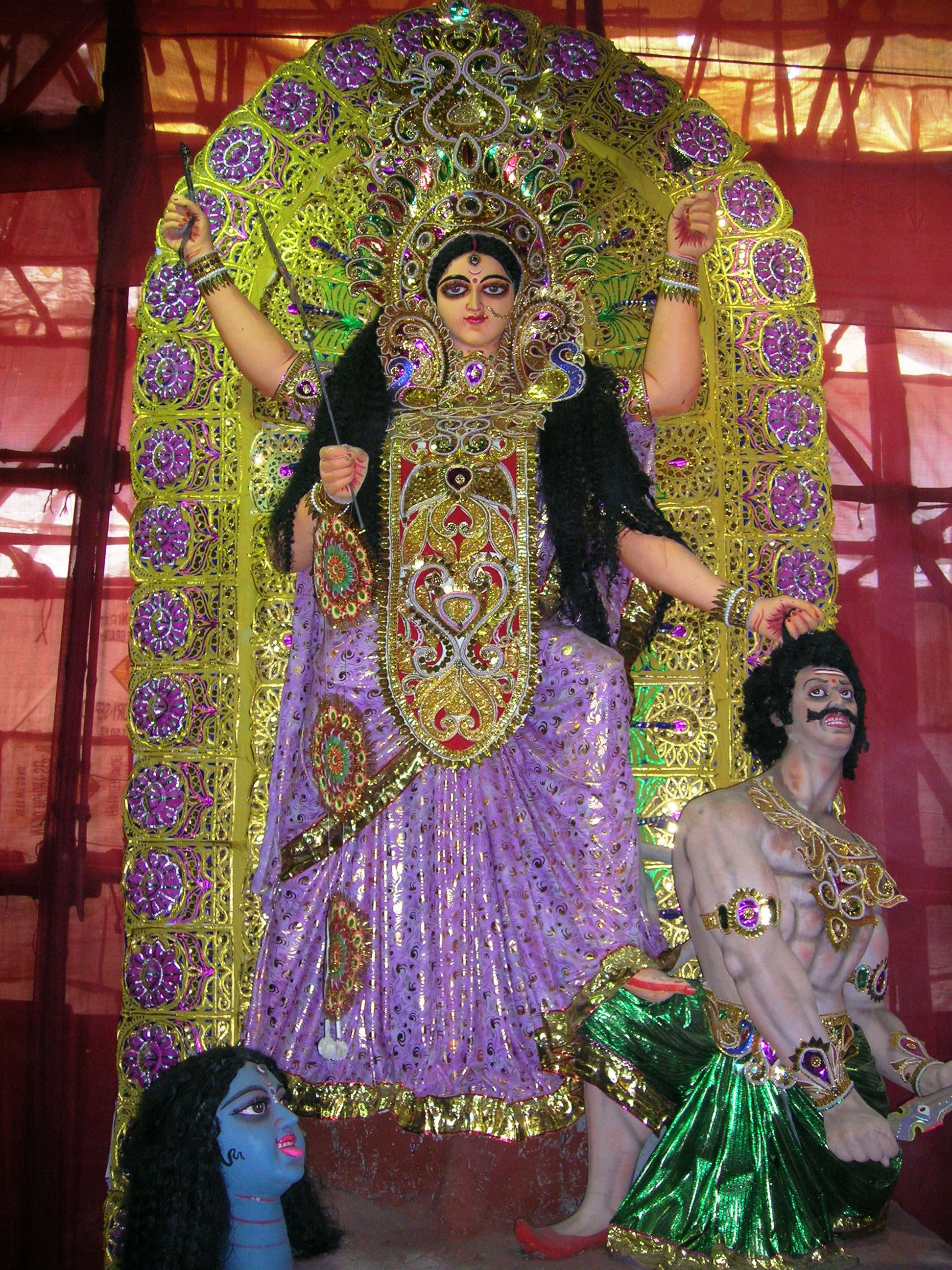 Hindu Goddess Chandi, Behala Sri Sangha Durga Puja pandal, Kolkata, 2011.